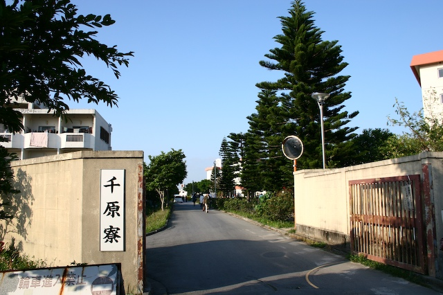 Sembaruryo Dormitory of University of the Ryukyus in Nishihara-cho, Okinawa